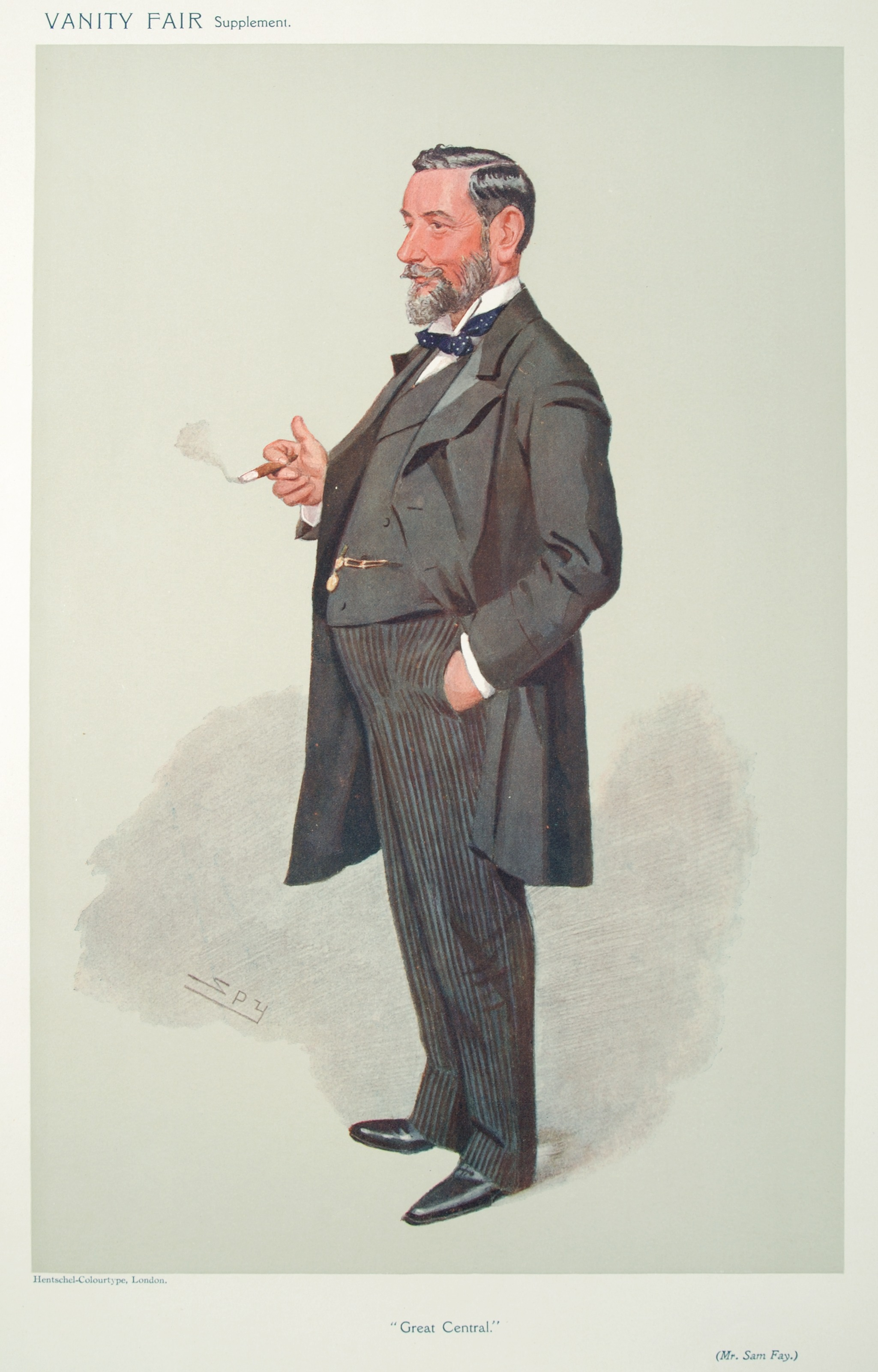 Caricature of Samuel Fay (1856-1953). Caption read "Great Central".